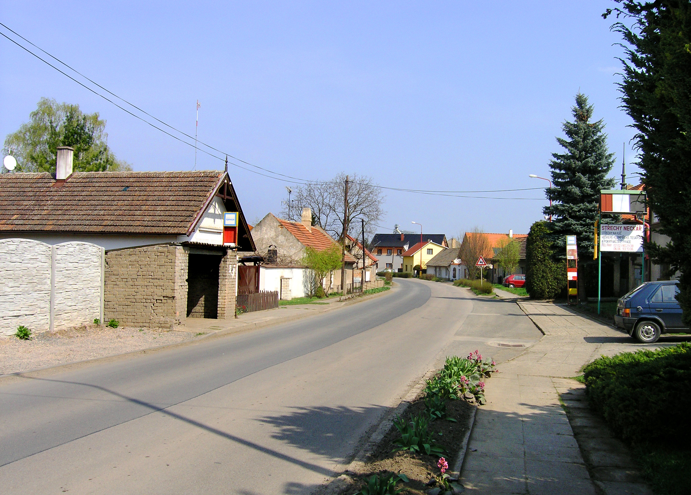 Starý Brázdim, local part of Brázdim village, Czech Republic